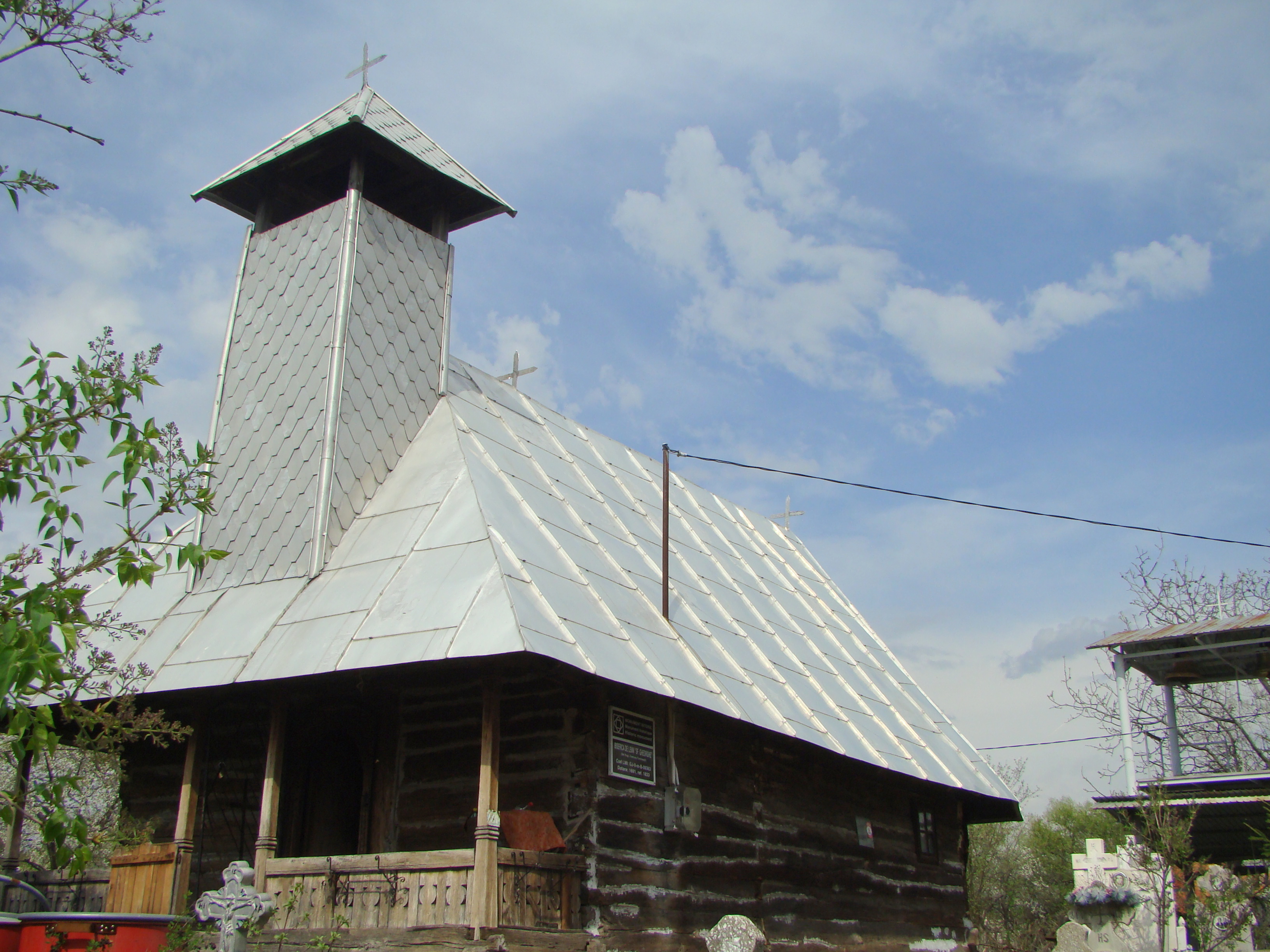 Saint George's church in Rugi, Gorj county, Romania